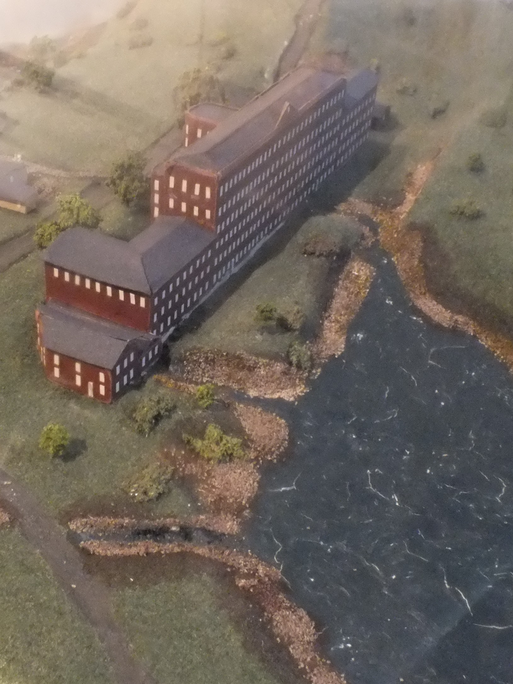 This model of Samuel Oldknow's 1790 mill at Mellor, Greater Manchester is in the collection at the Museum of Science and Industry (Manchester). - Google Maps - Google Earth